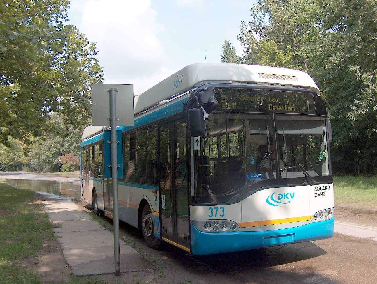 Ganz-Solaris type trolleybuses in Debrecen